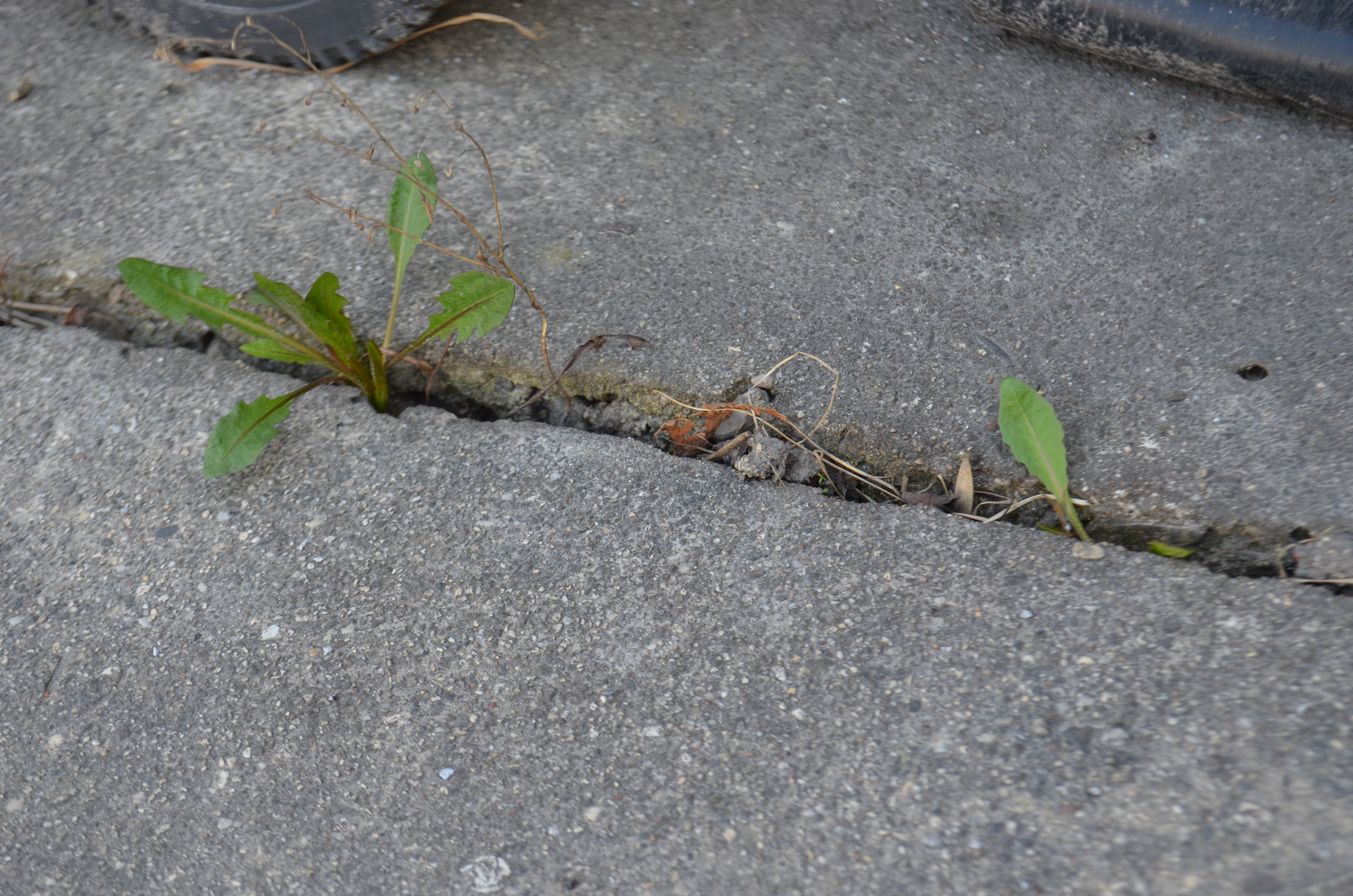 Weeds growing on edge of concrete